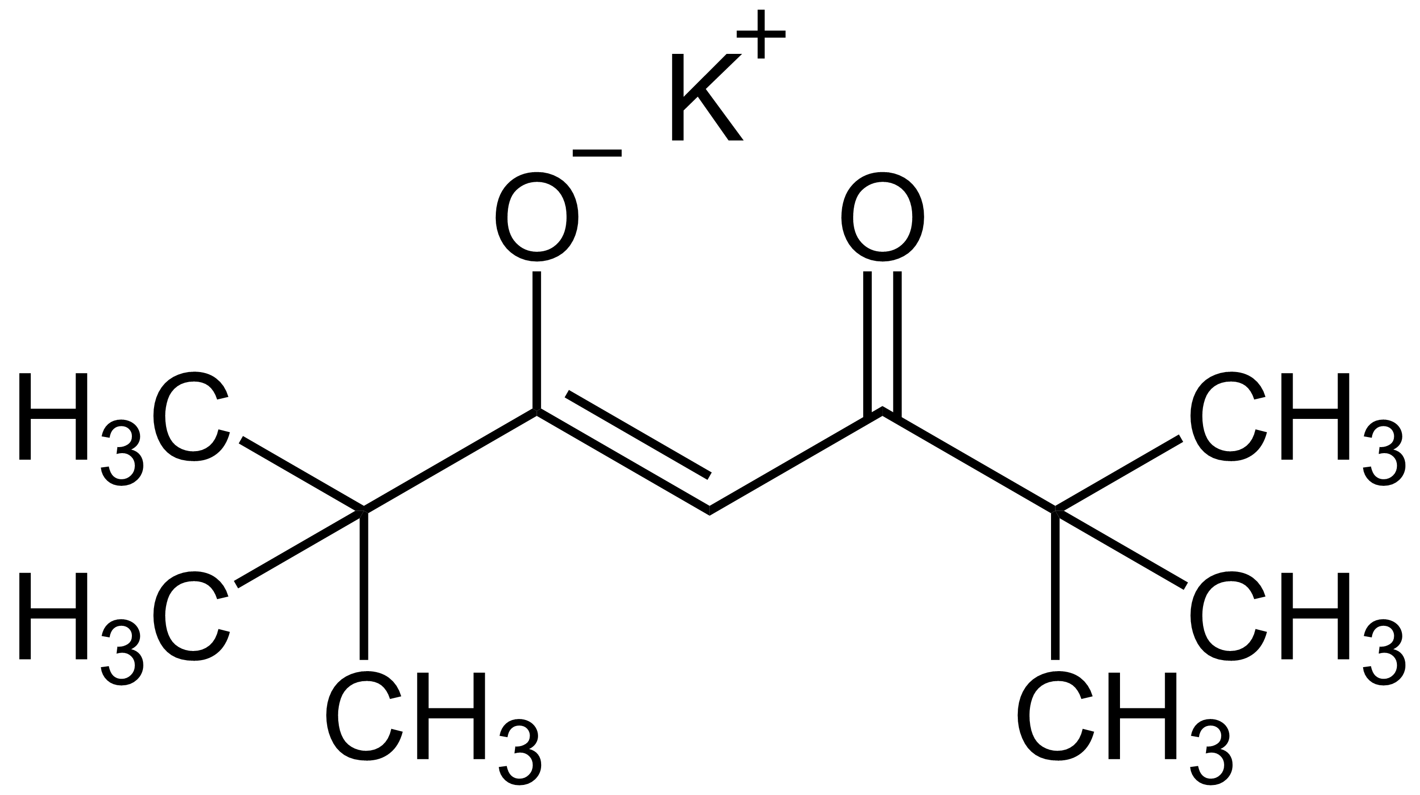 Potassium 2,2,6,6-tetramethylheptane-3,5-dionate, K(thd), K(tmhd), K(dpm), C11H19KO2